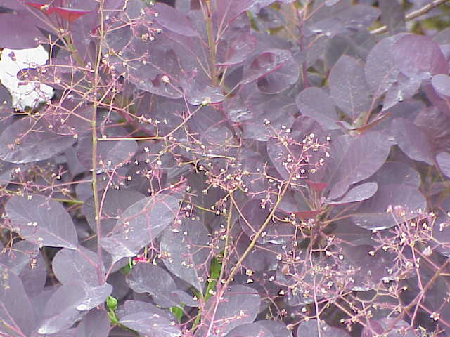 Species: Cotinus coggygria Family: Anacardiaceae Image No. 2